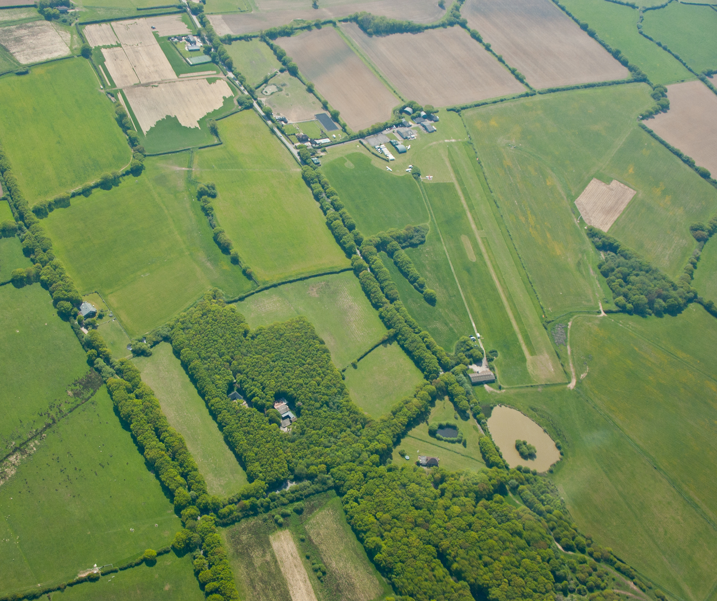 An aerial photograph of Deanland airfield and surroundings.